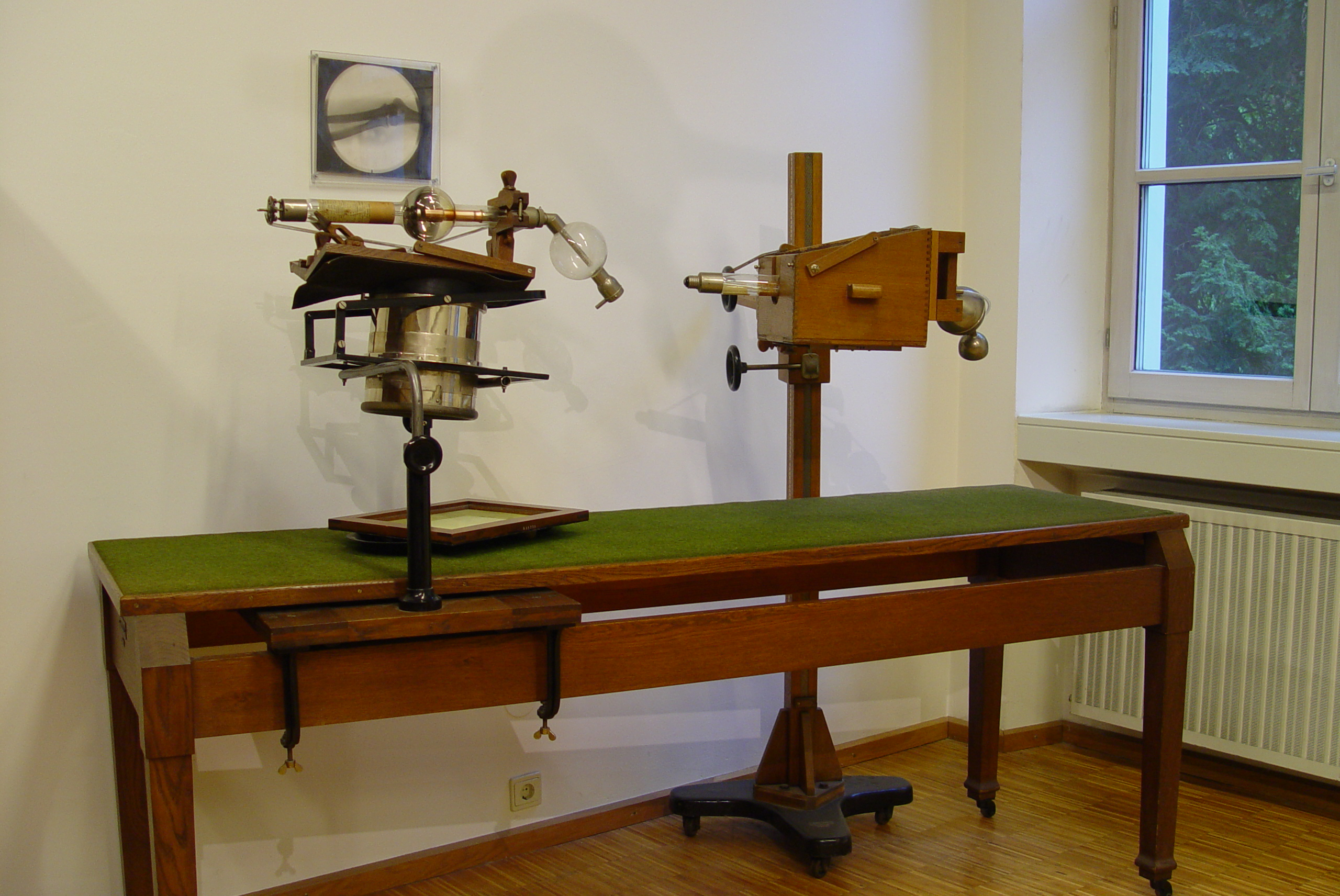 X ray apparatus from 1912 in the Röntgen memorial museum in Würzburg. Exposure time with the left tube up to 20 s.